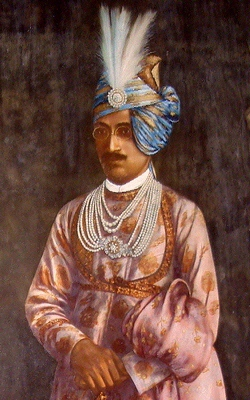 Major H.H. Raja Shrimant Sir Khem Sawant V Bhonsle Bahadur Bapu Sahib